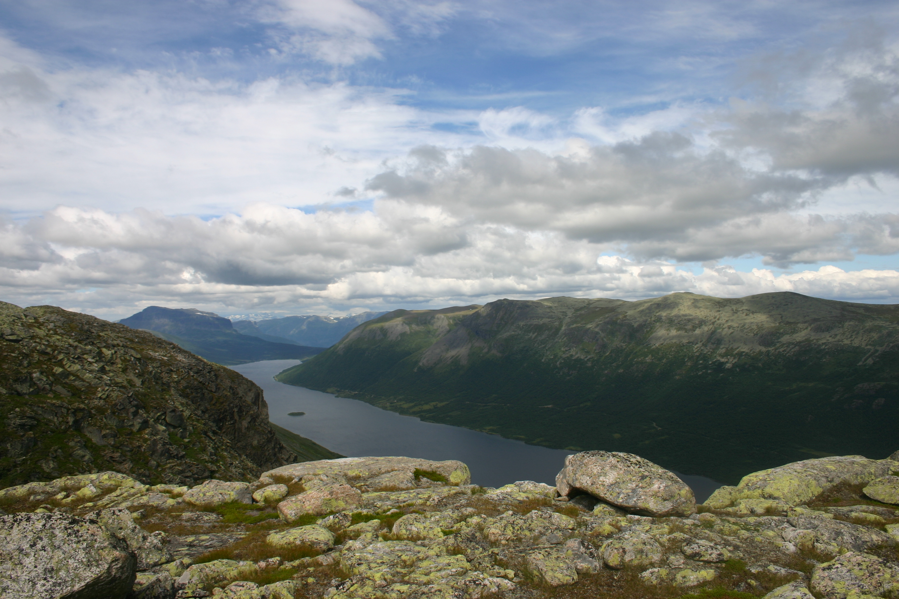 Picture of Lake Helin in Vang, Vestre Slidre, Valdres, Norway. Taken on top of Åkslefjellet showing Mountain Grindane in the North and Gilafjellet to the right (east)